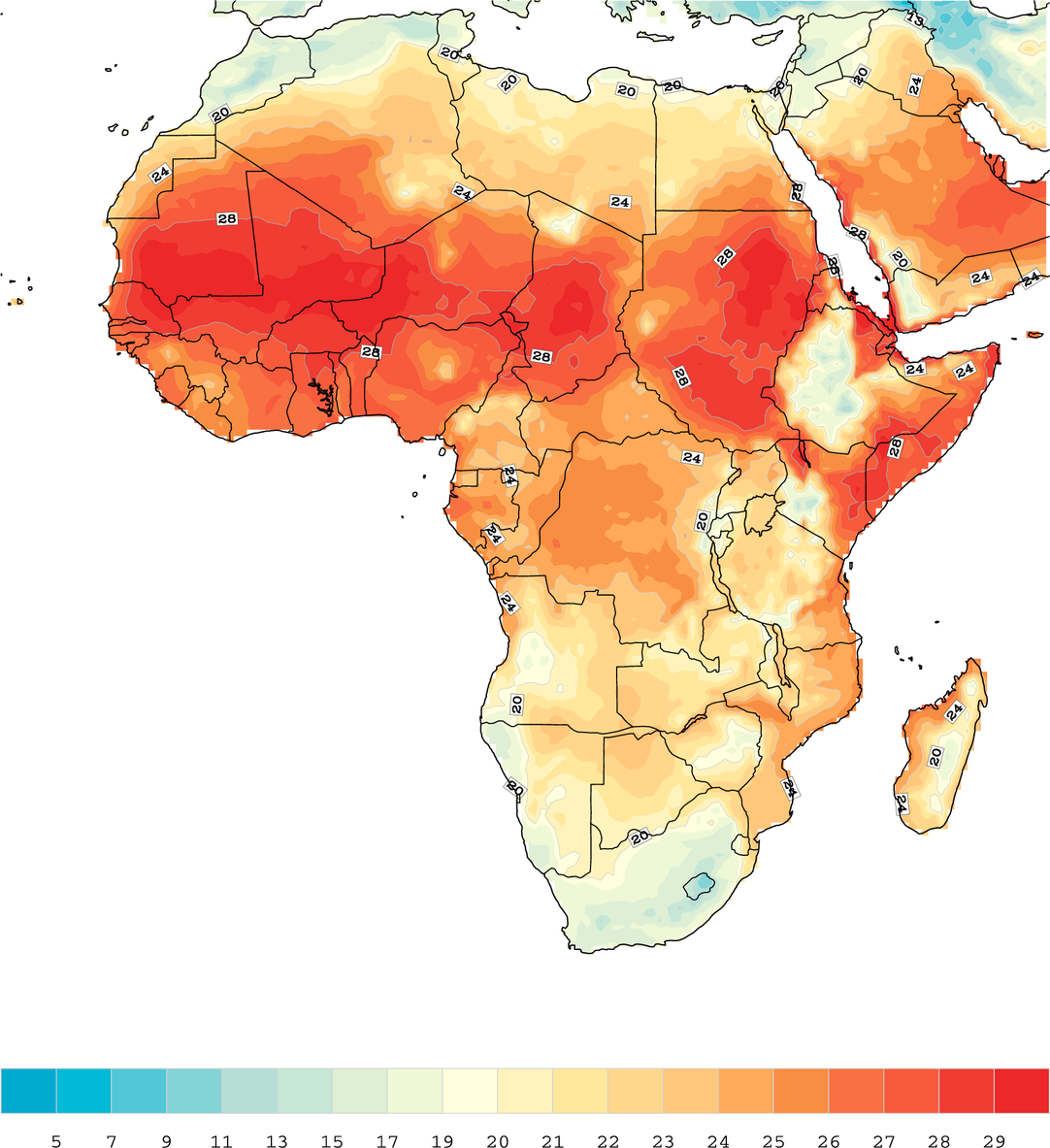 Africa mean 1971-2000 annual temperature. Data source: CRU TS3